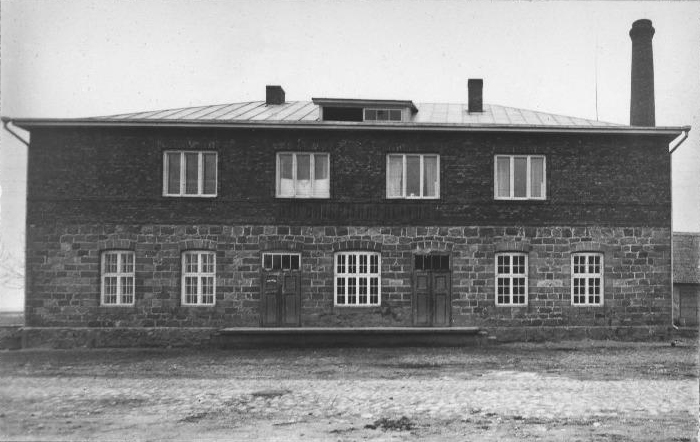 Dairy in Oiu village, Estonia, 1940